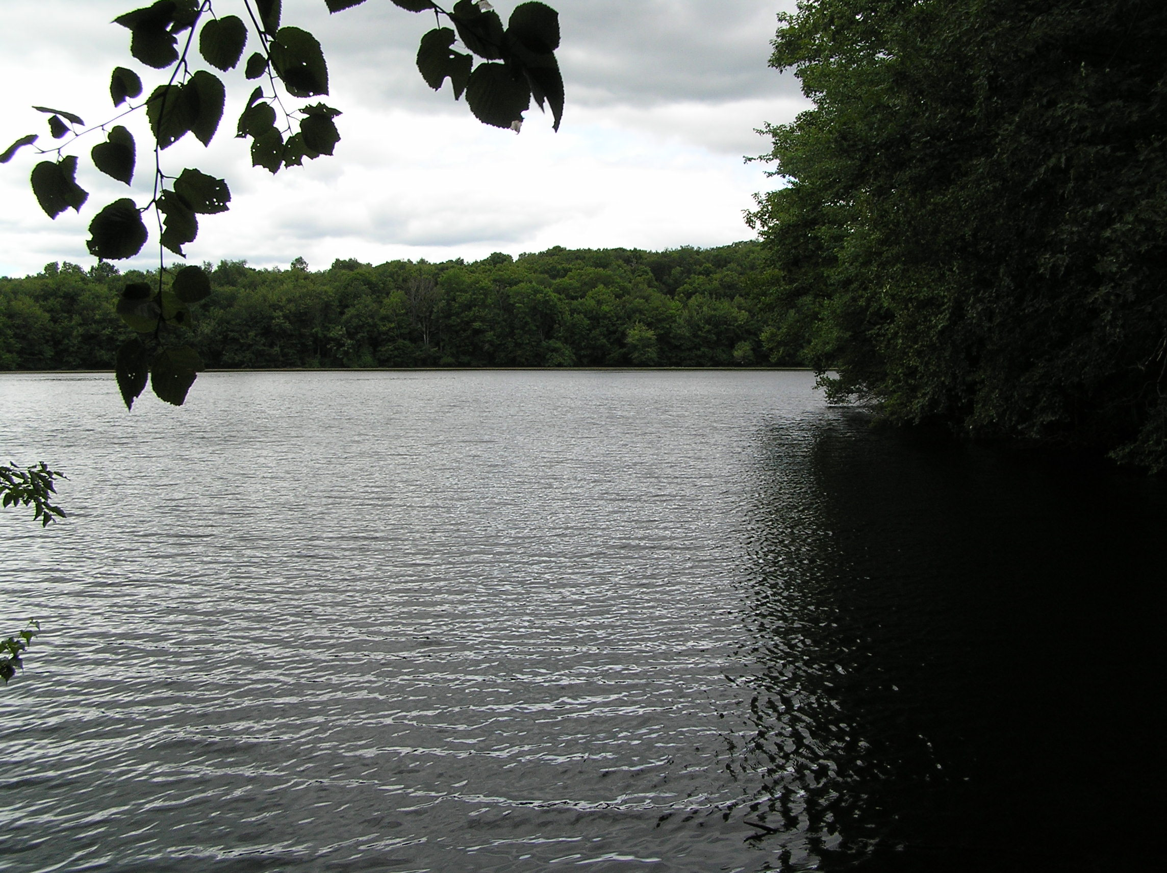 Wonder Lake in Kent, NY